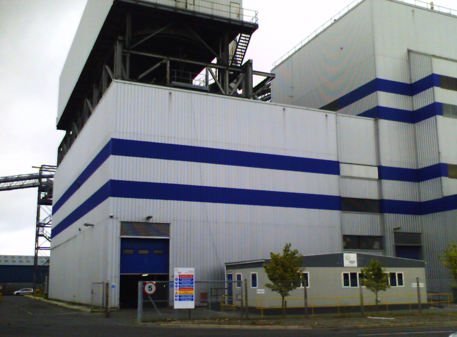 Glanford Power Station, Flixborough. Photo by E Asterion u talking to me?